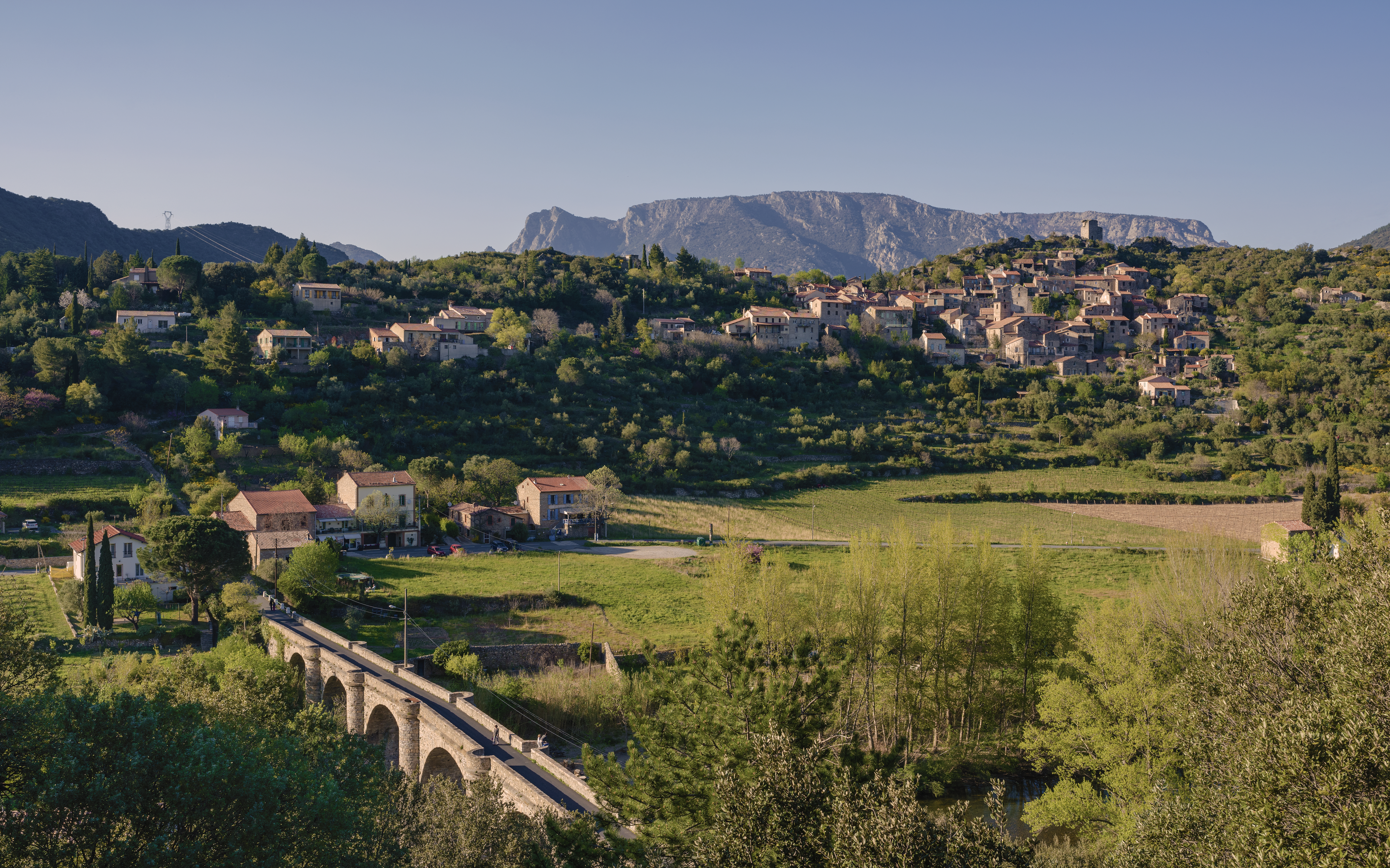 The village of Vieussan in one of the meanders of the Orb River, Hérault, France. Haut-Languedoc Regional Natural Park.